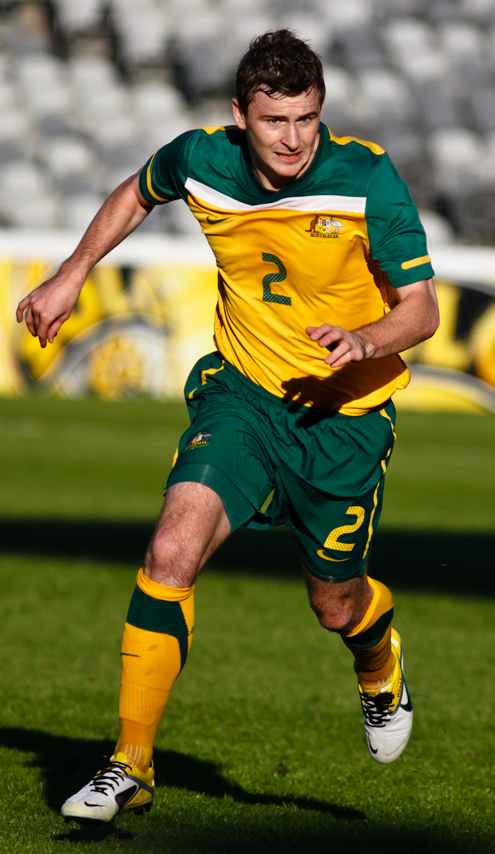 Sebastian Ryall playing for the Australian Olympic Football team against Yemen in 2011 at Gosford, New South Wales.